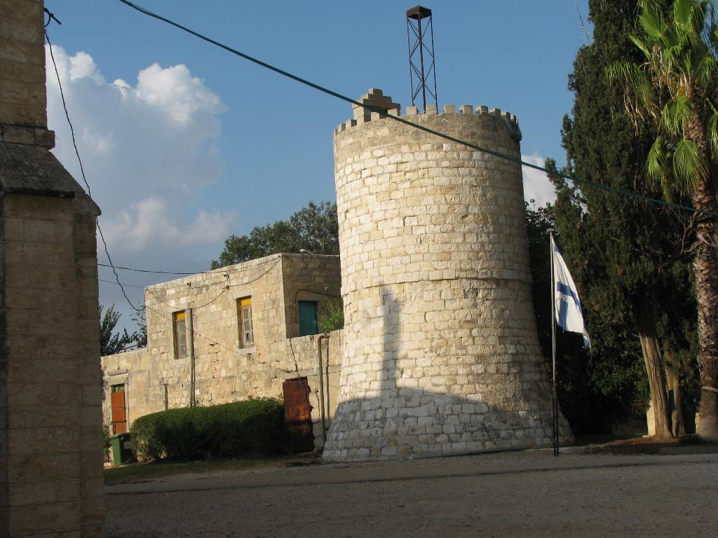 Unique structure of water tower